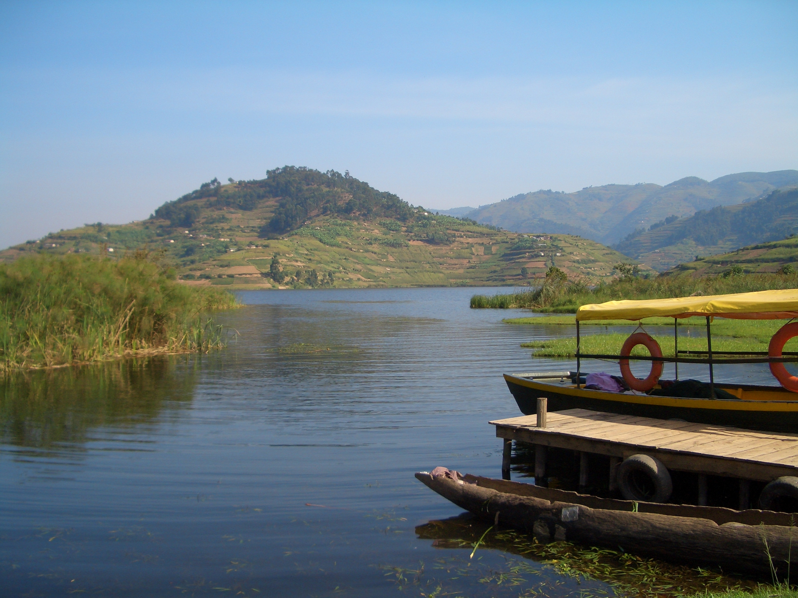 Bwindi Impenetrable National Park (Uganda)